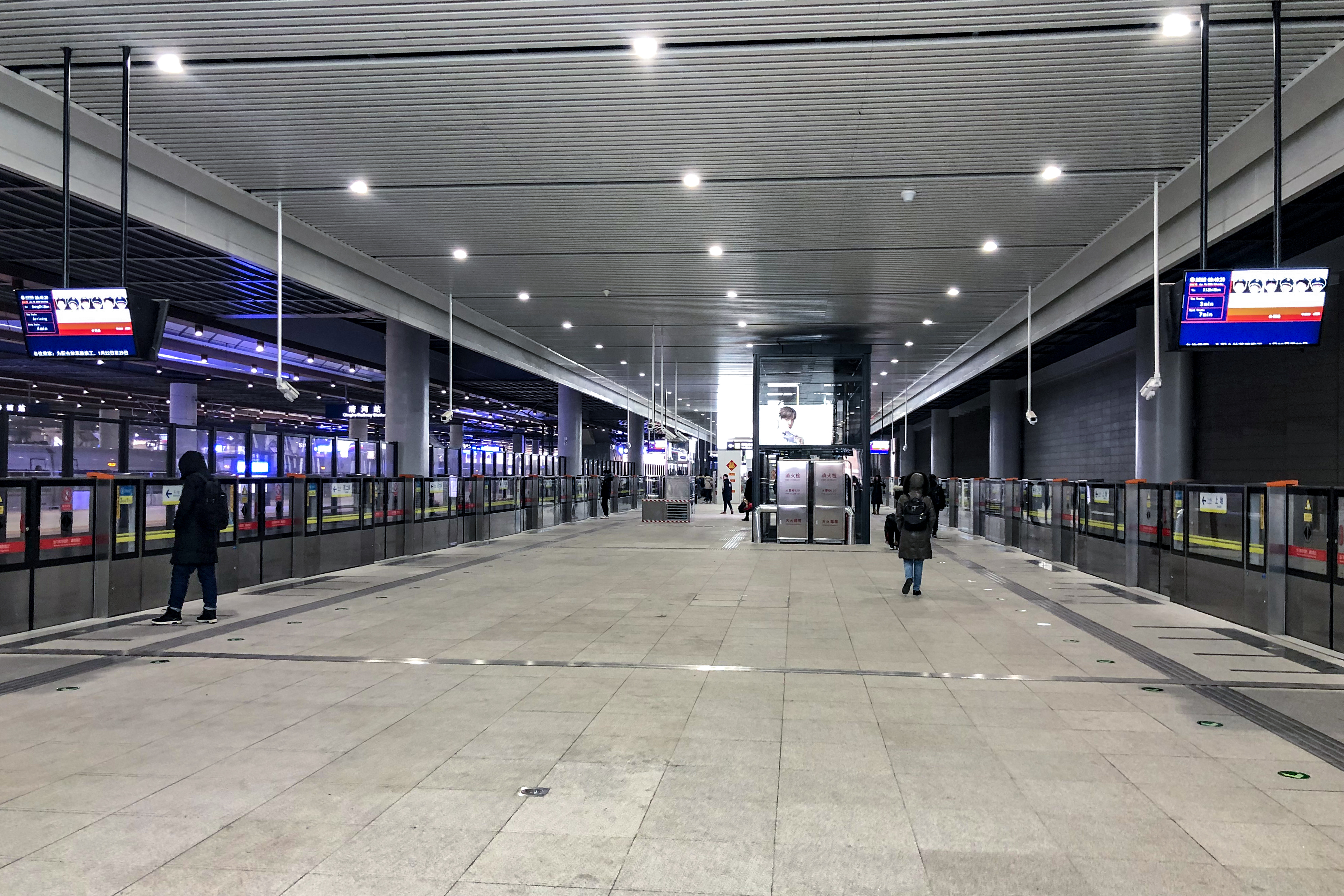 In fact, the metro part is still located in Shangdi subdistrict.